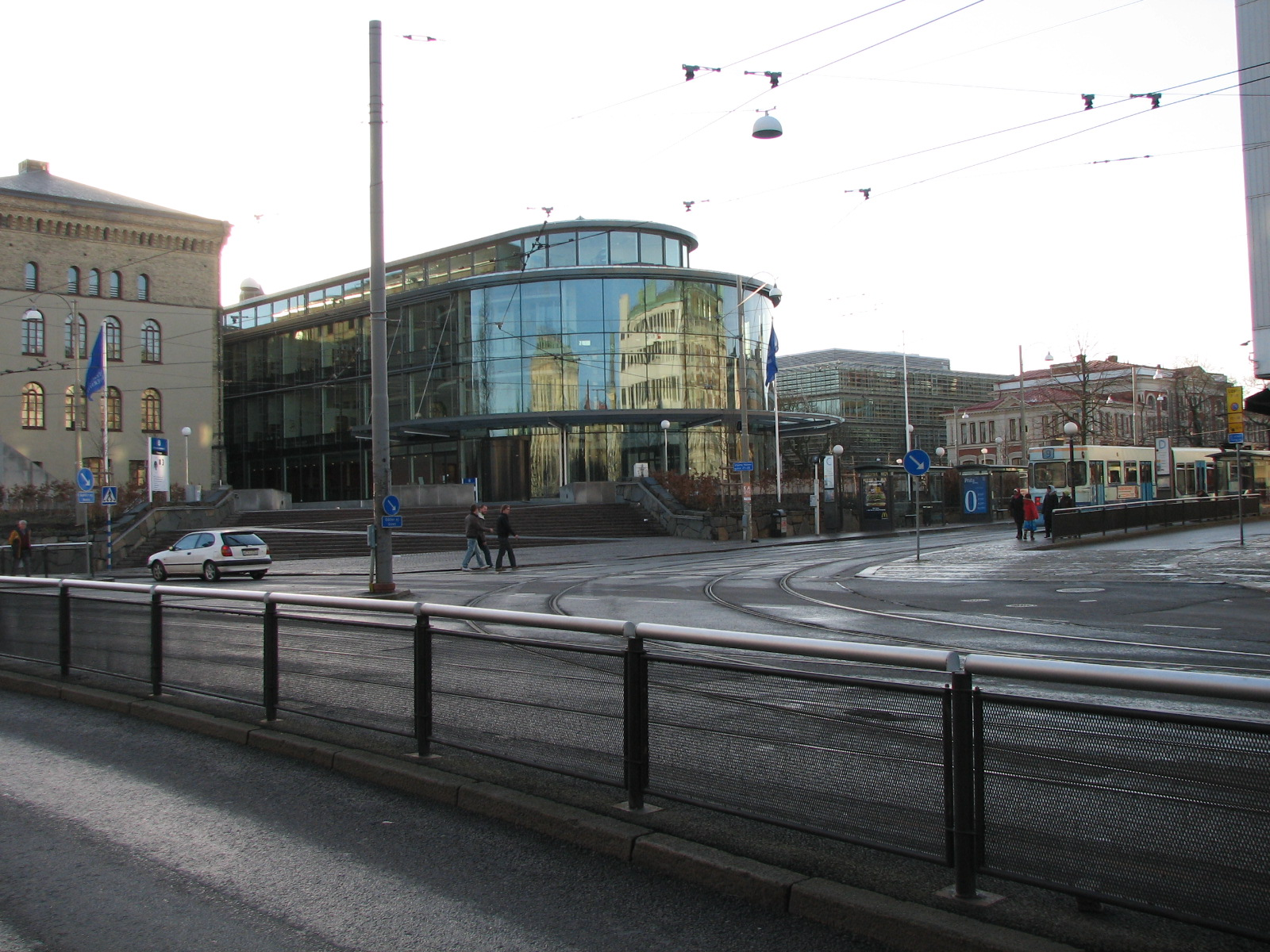 The Pedagogen building complex of the Faculty of Education, Gothenburg University: one gable of the old Sociala huset, the new rounded building and the new square building behind.